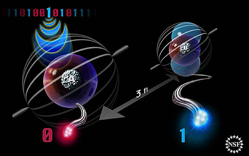 Teleportation Carries Information Between Entangled Atoms This artist's depiction shows atoms in the quantum state of entanglement. Information represented by the state of atom A on the left is teleported to atom B three feet away. Advances in teleportation may boost the potential of quantum computing and communication. Researchers have shown for the first time how to use teleportation to transfer a quantum state over a significant distance from one atom to another. Read more about this discovery. Credit: Nicolle Rager Fuller, National Science Foundation Visit the National Science Foundation's Multimedia Gallery, at for more images, and for video.